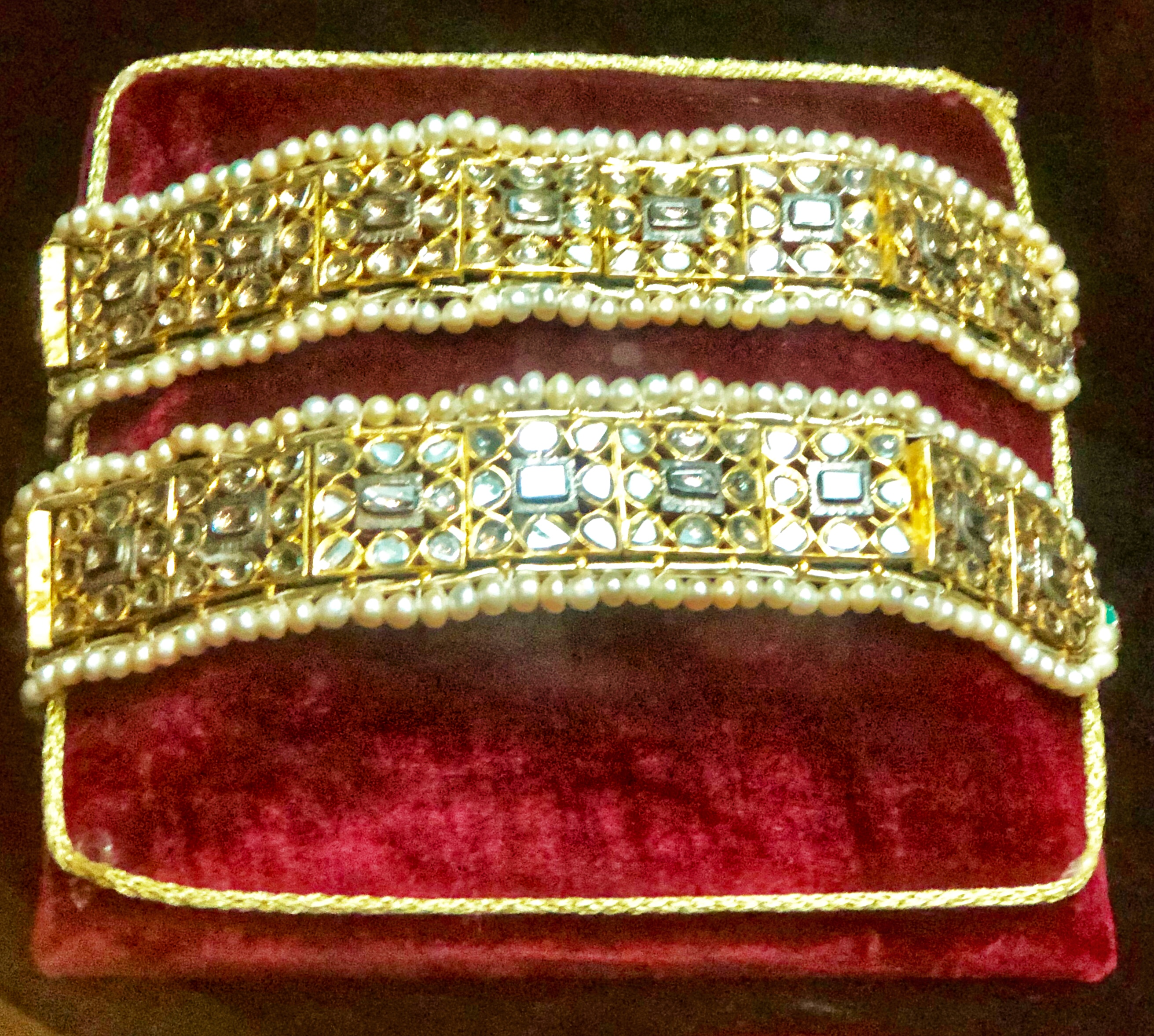 Rock cut diamonds embedded on a band of gold and surrounded by pearls